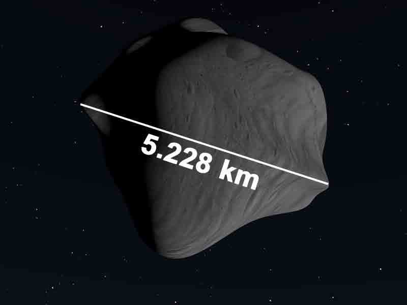 Artistic-representation of asteroid 5827 Letunov 1990 VB15